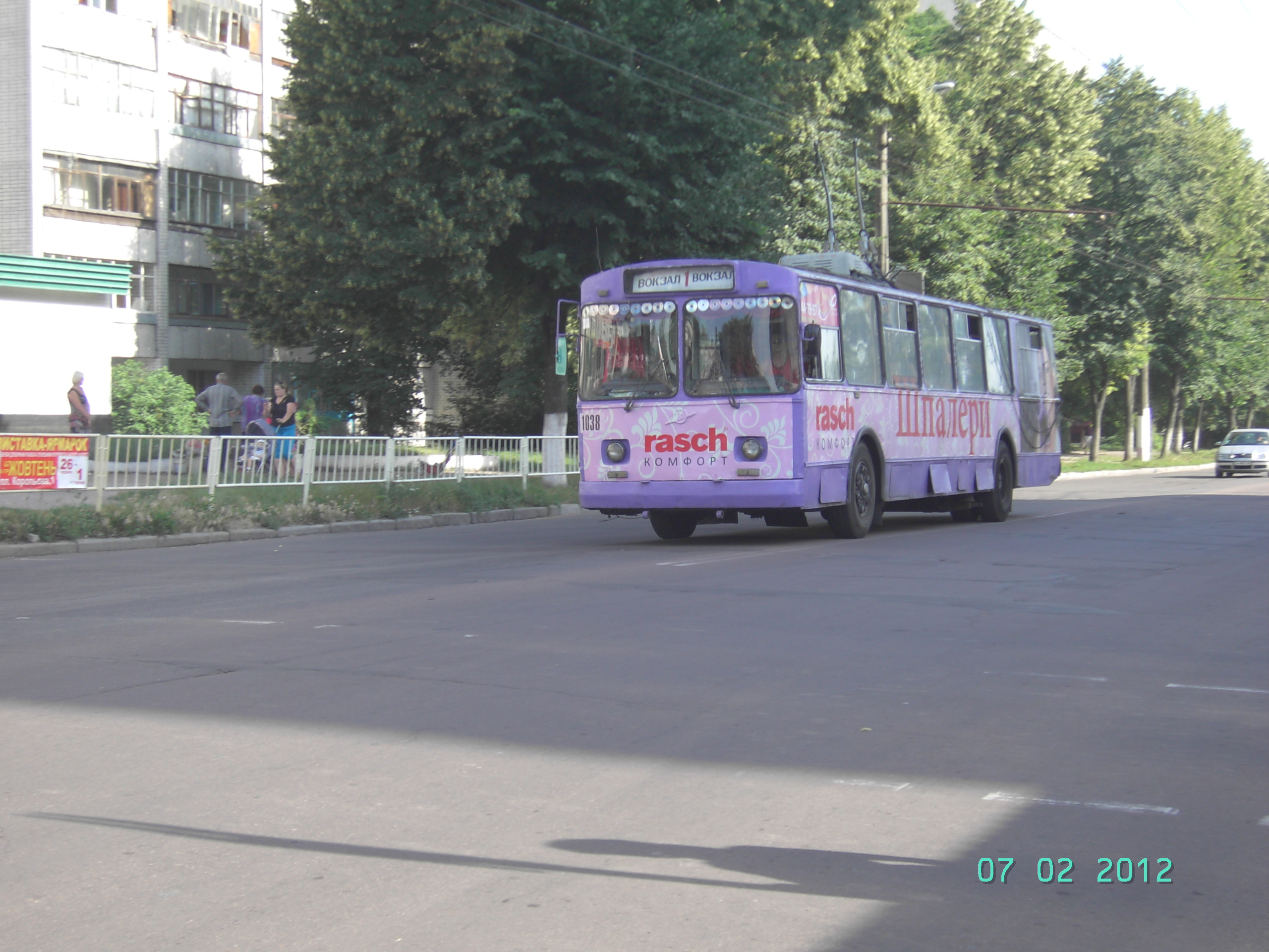 Trolleybus #1038 at Vitruk Street, Zhytomyr